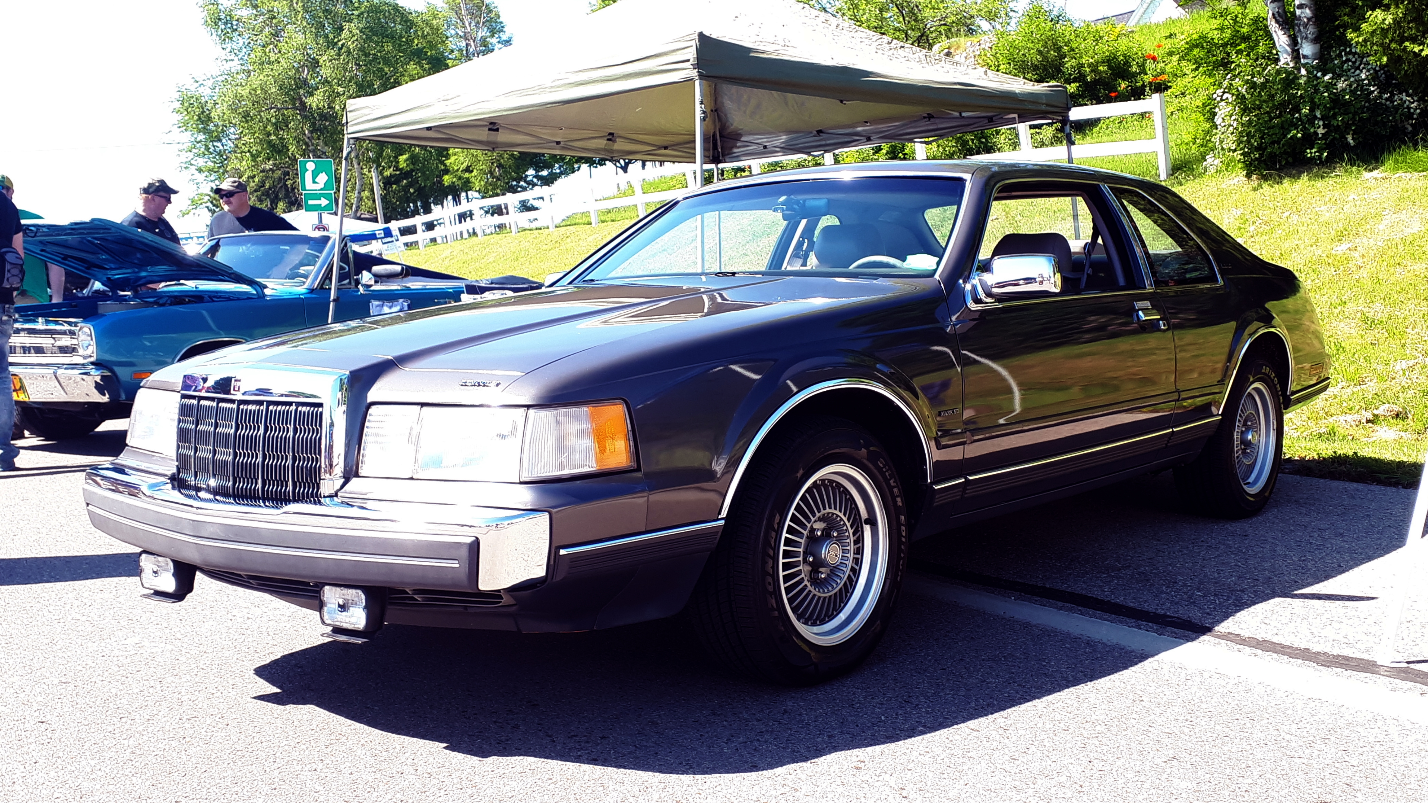 1988-1990 Lincoln Mark VII LSC photographed in St. Ignace, Michigan at the annual St. Ignace car show weekend.